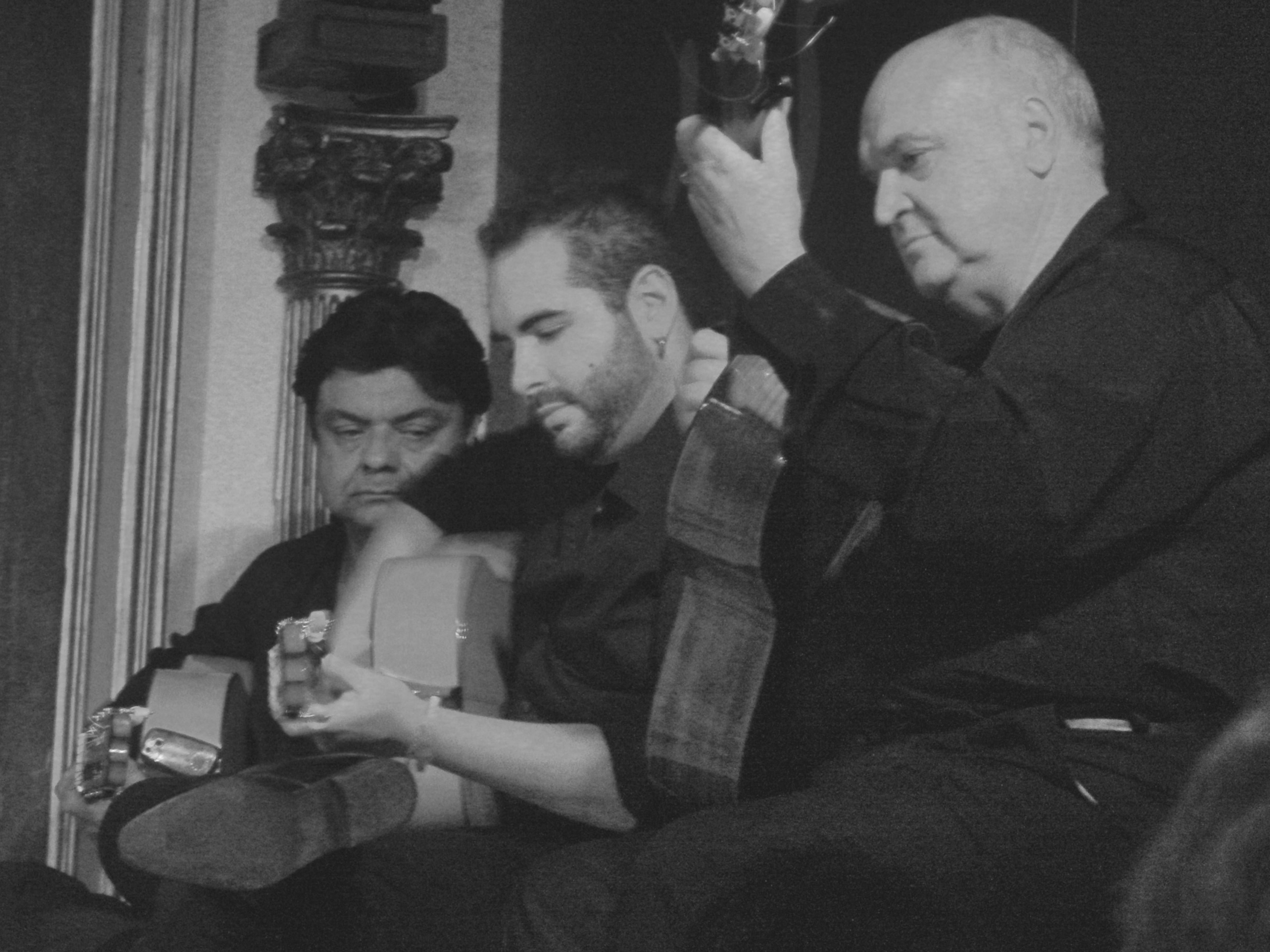 CORRAL DE LA MORERIA - MADRID